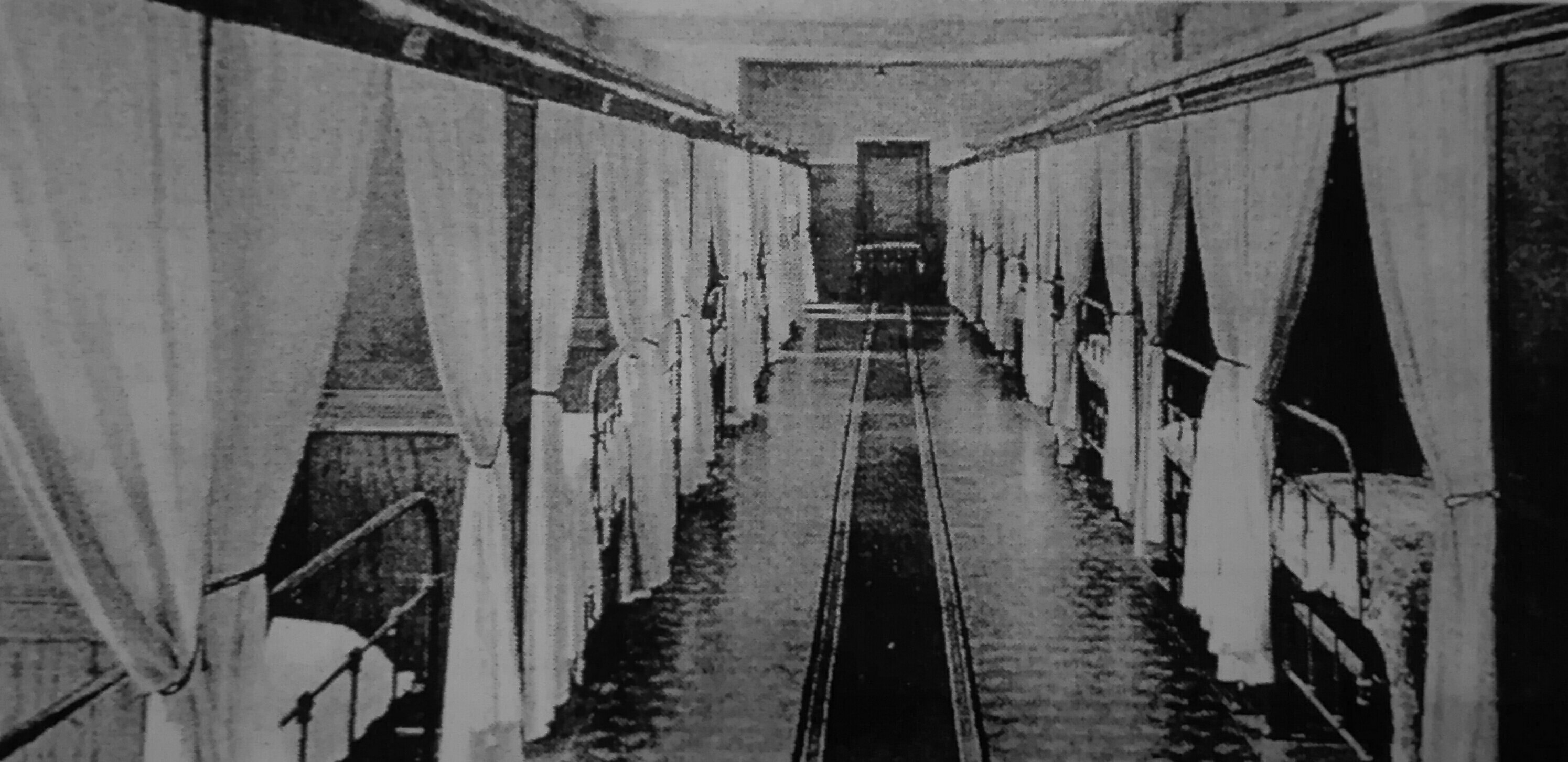 Old picture from the bedroom of the Sint-Gabriëlcollege in Boechout (Belgium). The author is unknown and the picture is older than 70 years.